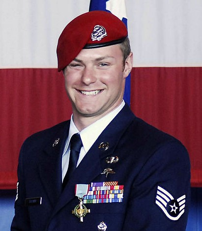 Secretary of the Air Force Michael B. Donley presents Staff Sergant Zachary Rhyner the Air Force Cross March 10 at Pope Air Force Base, N.C. Sergeant Rhyner of the 21st Special Tactics Squadron received the medal for uncommon valor during Operation Enduring Freedom for his actions during an intense 6.5-hour battle in Shok Valley, Afghanistan, April 6, 2008.